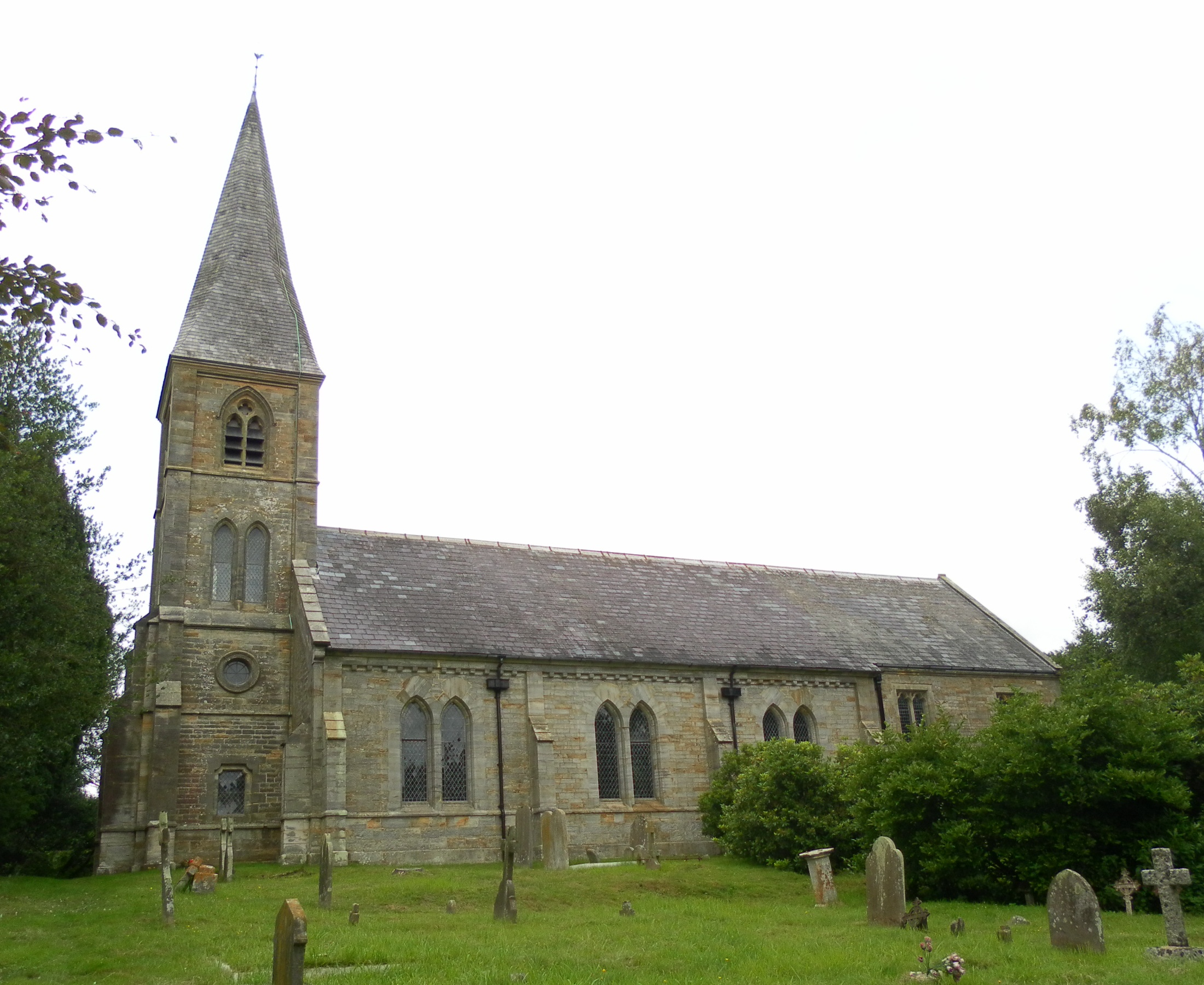 St Augustine of Canterbury's parish church, Flimwell, East Sussex, England, seen from the south